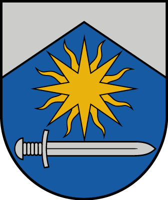 Coat of arms of Kocēni Municipality, Latvia